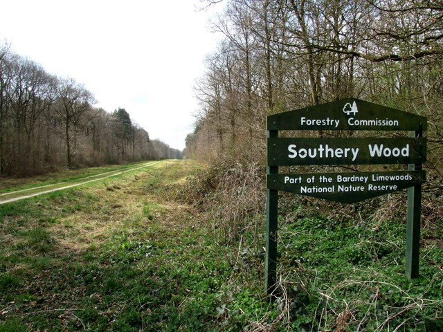 Southrey Woods, near Bardney. I pass this track fairly regularly and every year at this time see Wood Anemones amongst the trees. Spot the spelling mistake.